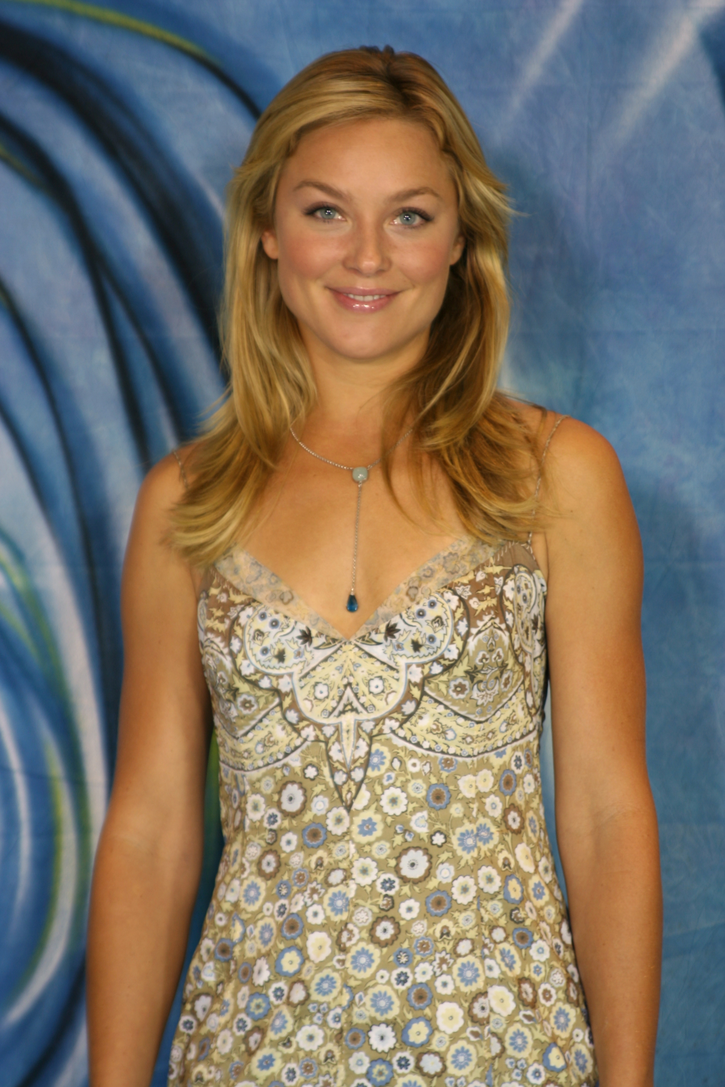 Elisabeth Röhm at BE Blowout in a dress.